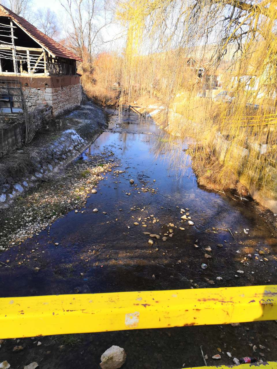 River in village Rasnica